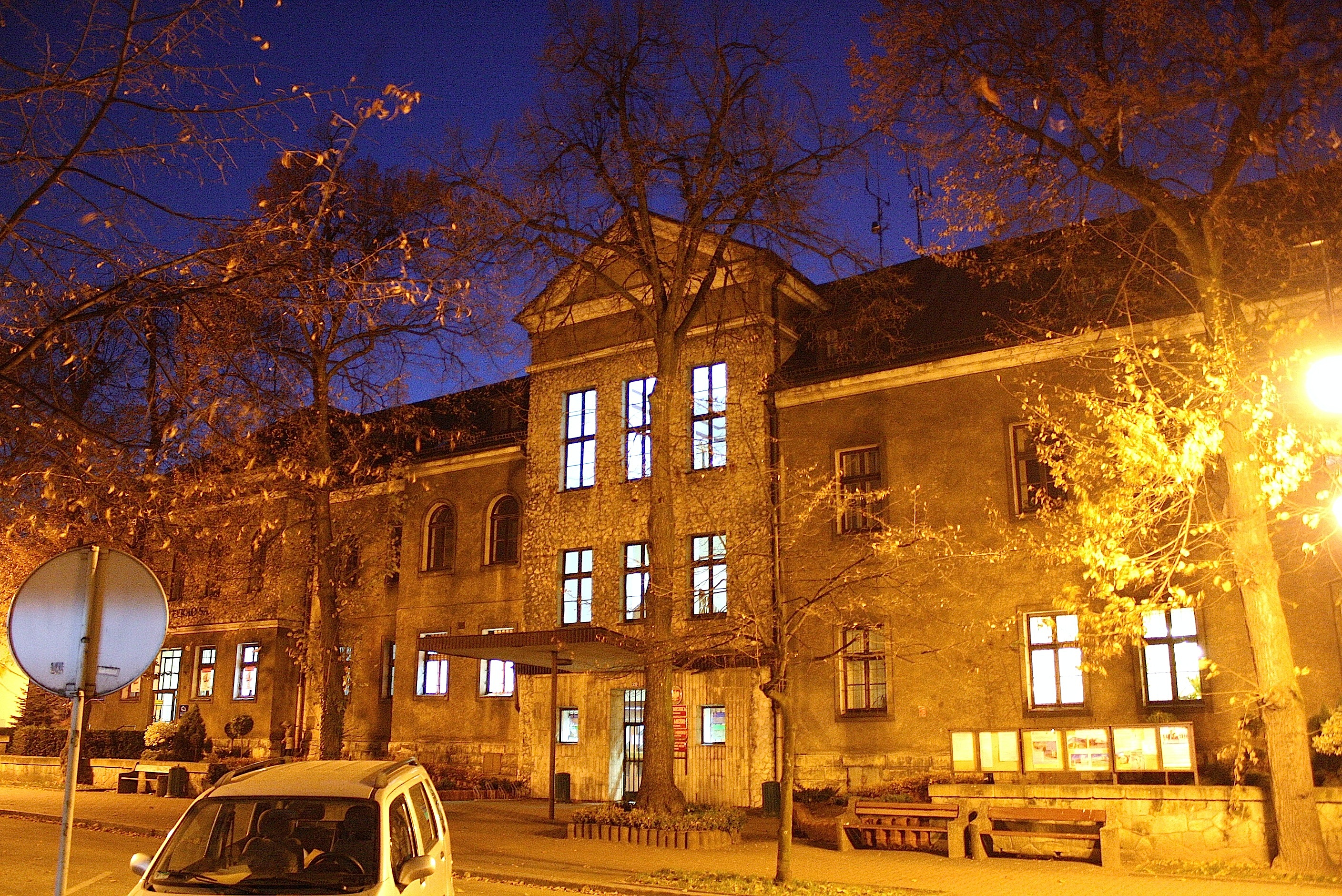 Chrzanów, the former County Office HQ (prior to 1975)